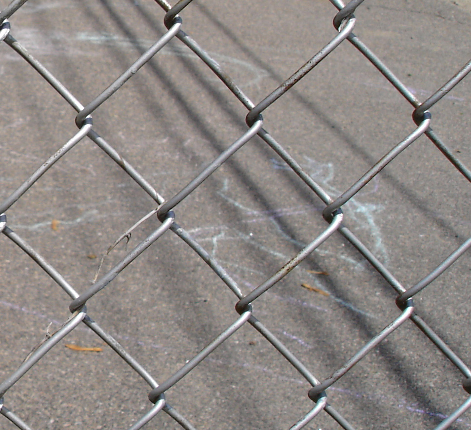 Example of wallpaper type p2. A suburban fence in Massachusetts, U.S.